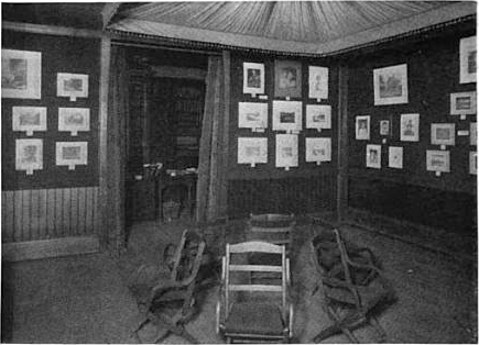 Exhibition room, Boston Camera Club, Bromfield St.